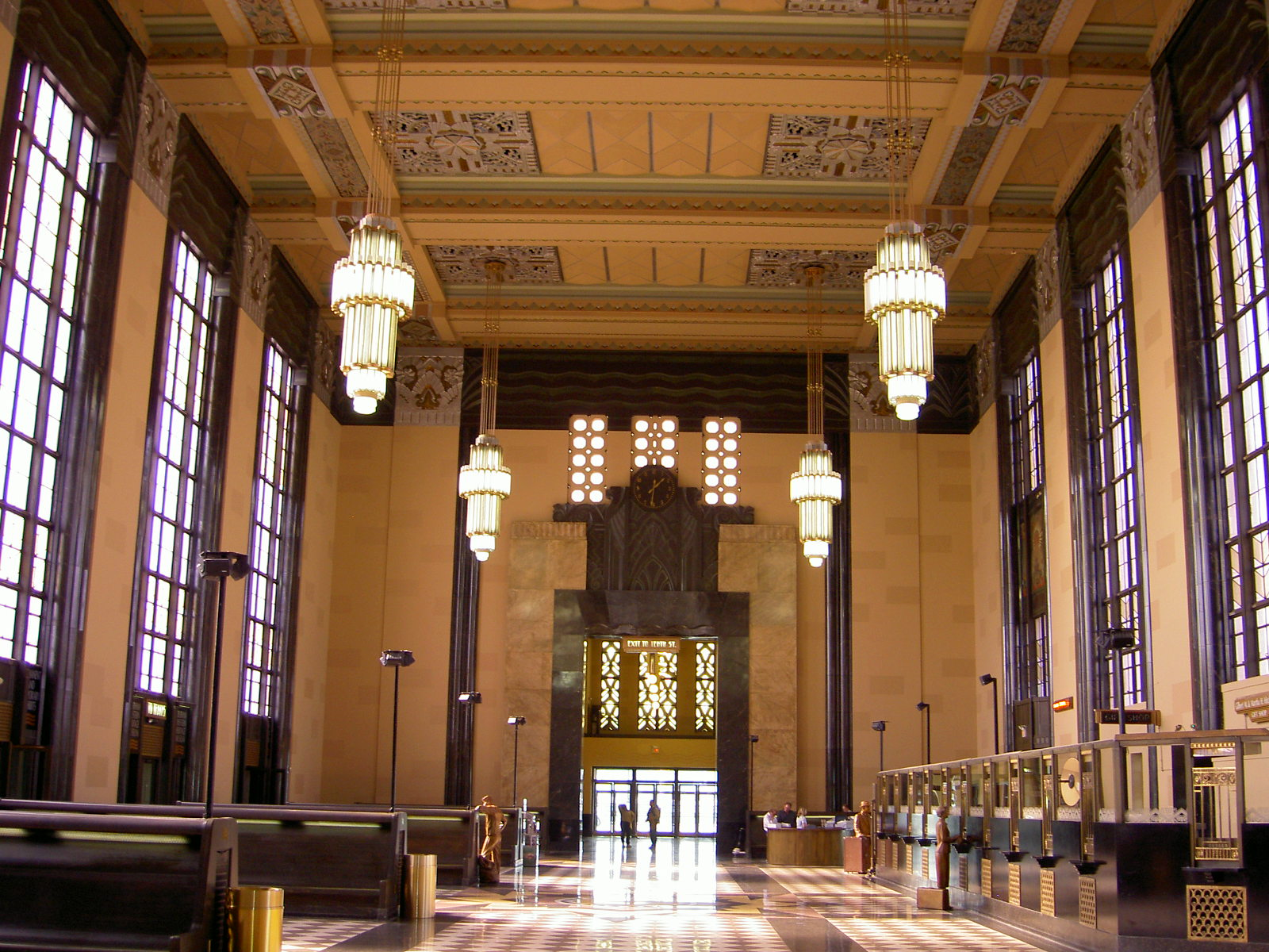 I noticed that there were no pictures of the Union Station here and its article describes the architecture. I made this picture on a Feb. 2005 road trip and think it fits great to the article and really puts the massive size of Union Station into perspective.